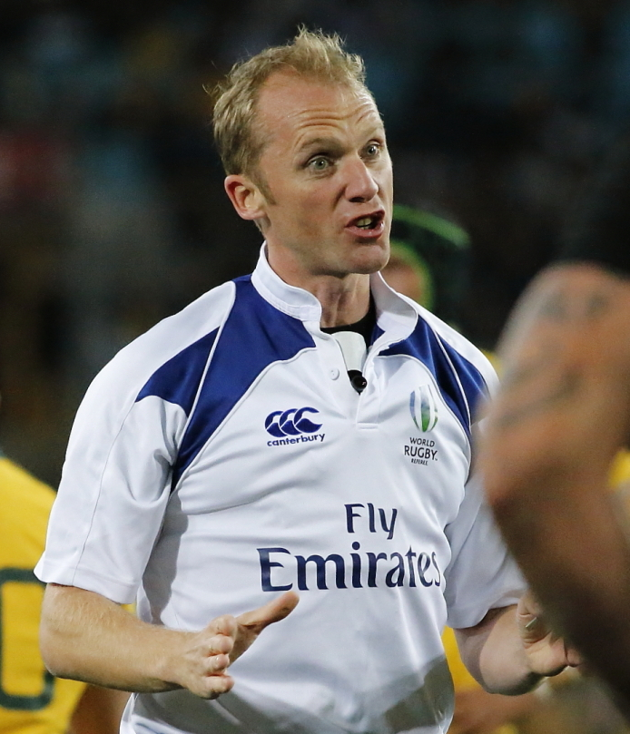 2017.08.19.20.24.20-AUSvNZL-0002 2017 Rugby Championship, Bledisloe 1, Australia vs New Zealand, 19th August, ANZ Stadium, Sydney